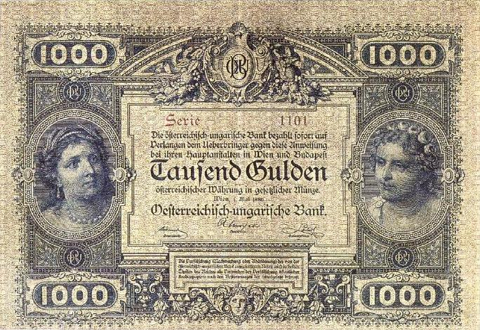 1000 Austro-Hungarian Gulden/forint (1880) - obverse